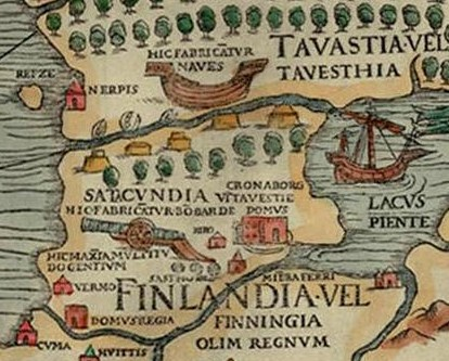 Detail of Carta marina showing Finnish industry in the Middle Ages: "Hic fabricantur naves" - Ships are made here "Hic fabricantur bombarde" - Bombards are made here. "Hic maxima multitudo gentium" - Here is the greatest number of people